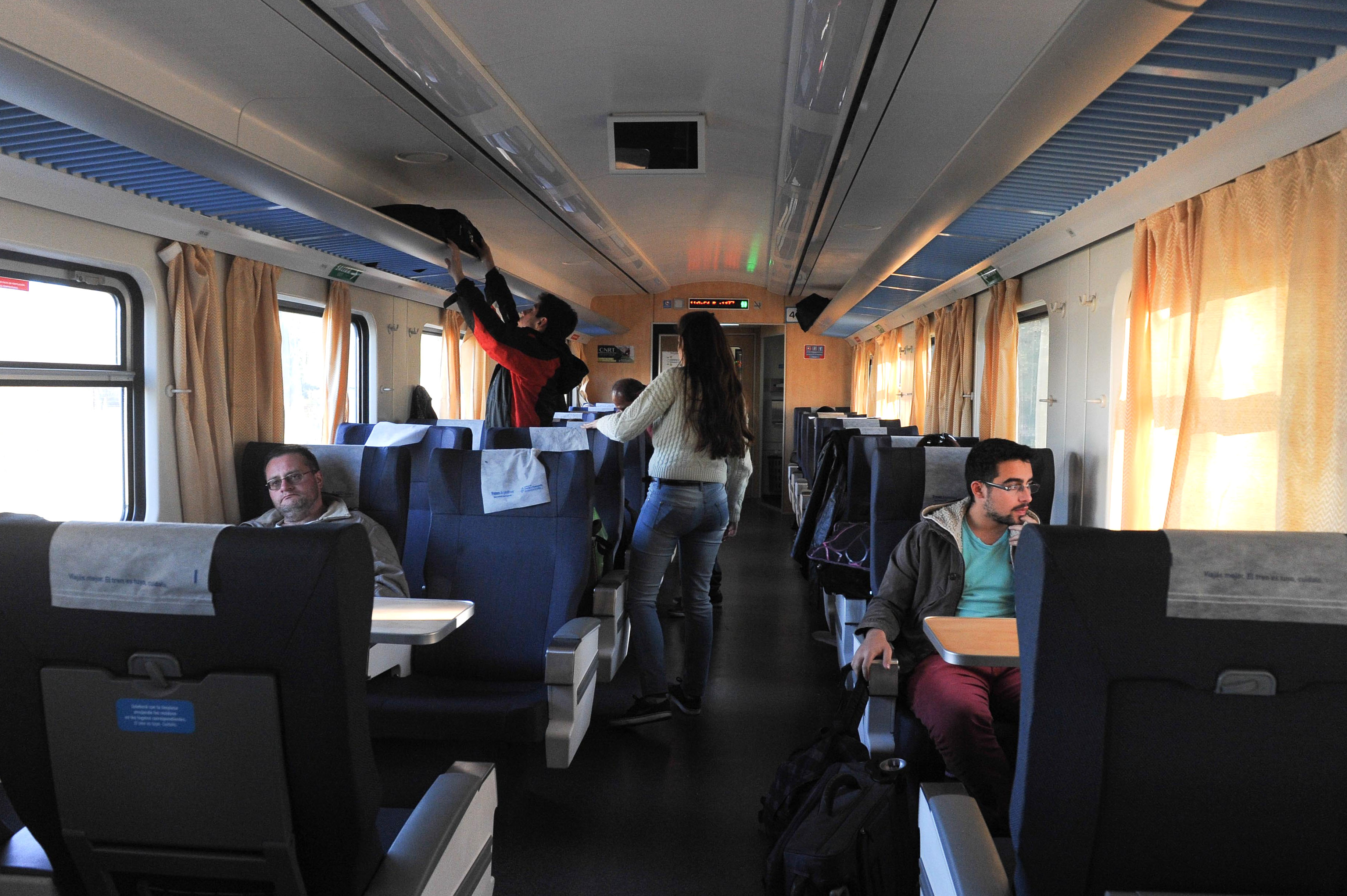 Interior of a Trenes Argentinos train in Bahia Blanca on the General Roca Railway.